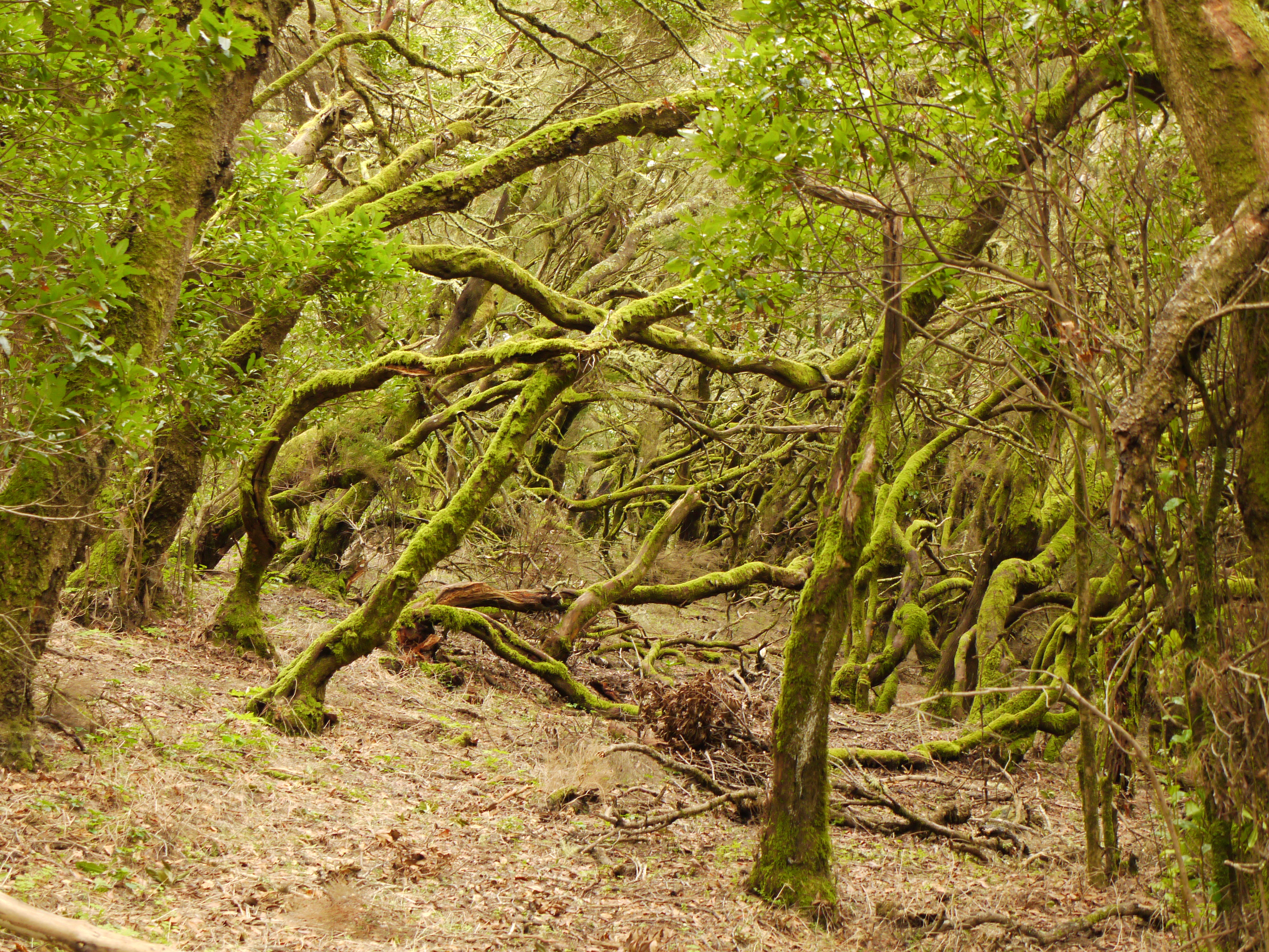 Laurisilva Trees in part of Garajonay National Park, La Gomera